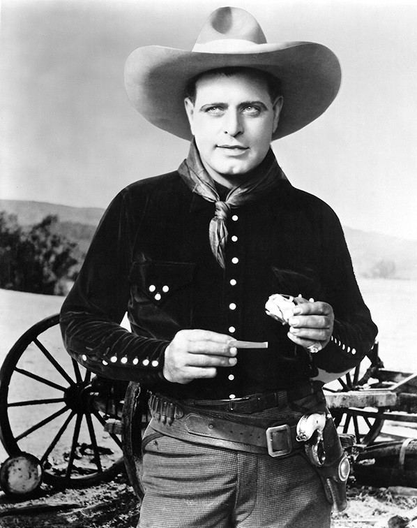 Western film actor Jack Hoxie in a circa 1918-1922 publicity photograph.